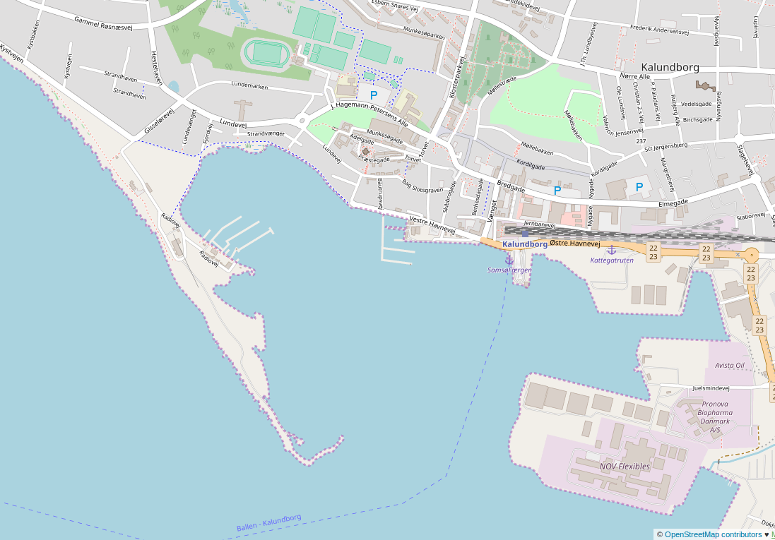 Image of OSM-map (Open Street Map) of Kalundborg harbour with the spit (landform) Gisseløre creating a natural harbour Gisseløre:wikidata:Q23747636 This map may be incomplete, and may contain errors. Don't rely solely on it for navigation.